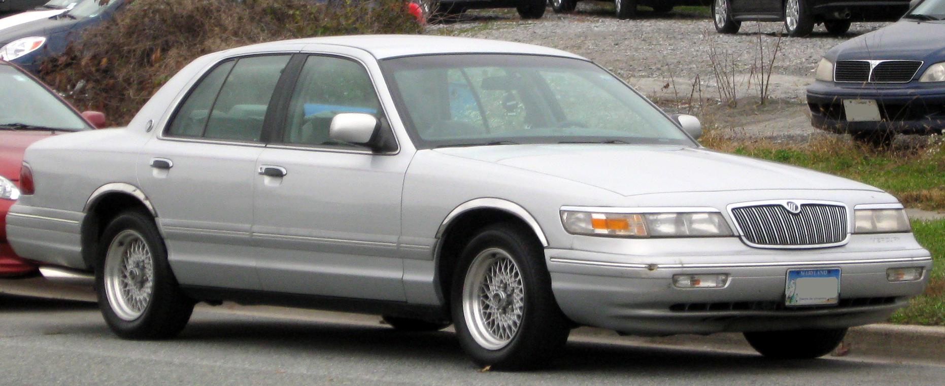 1995-1997 Mercury Grand Marquis photographed in Silver Spring, Maryland, USA.